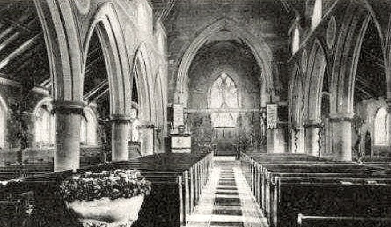 Interior of the former St James Church, Brighouse, West Yorkshire, England. Built 1867, demolished 1970s. (Source).